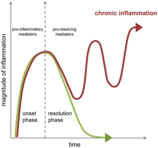 Figure 1. Dynamics of the inflammatory response in chronic inflammation. The acute inflammatory response is a highly coordinated sequence of events characterized by an onset phase coordinated by several families of chemokines, cytokines, and pro-inflammatory mediators that is followed in health by an active resolution phase brought about by the engagement of specific cellular mechanisms under the control of several pro-resolving mediators to promote resolution of the tissue inflammation as well as healing and repair. A failure in pro-resolving pathways can extend in time the actions of pro-inflammatory mechanisms resulting in prolonged or chronic inflammation with recurrent exacerbations.